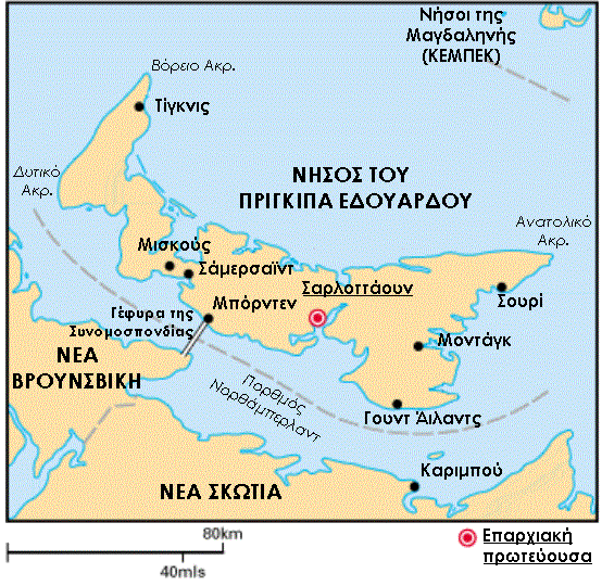 Map of Prince Edward Island in Greek